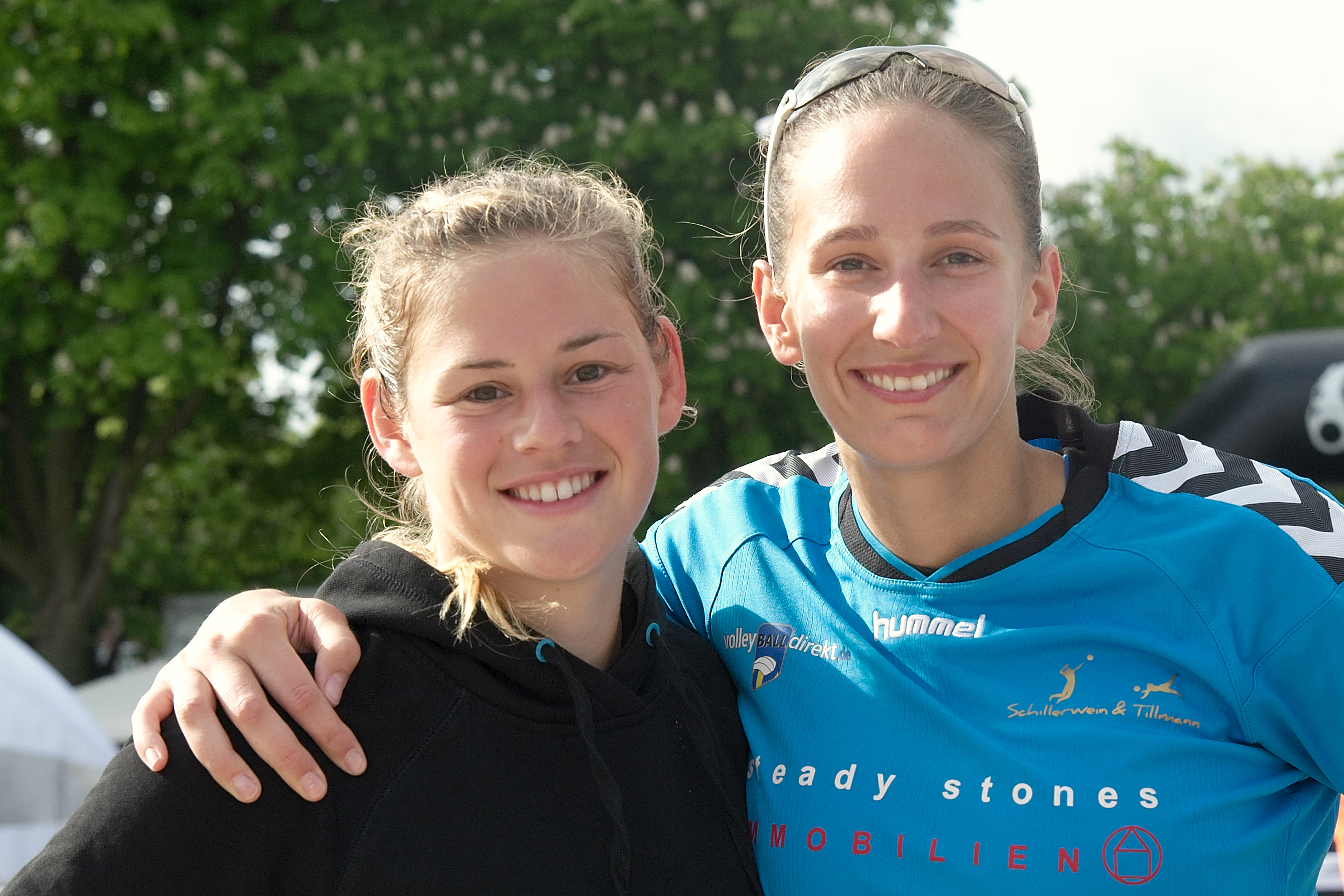 The German beach volleyball players Cinja Tillmann (left) und Katharina Schillerwein (right) at the Smart Beach Tour tournament in Münster 2015.